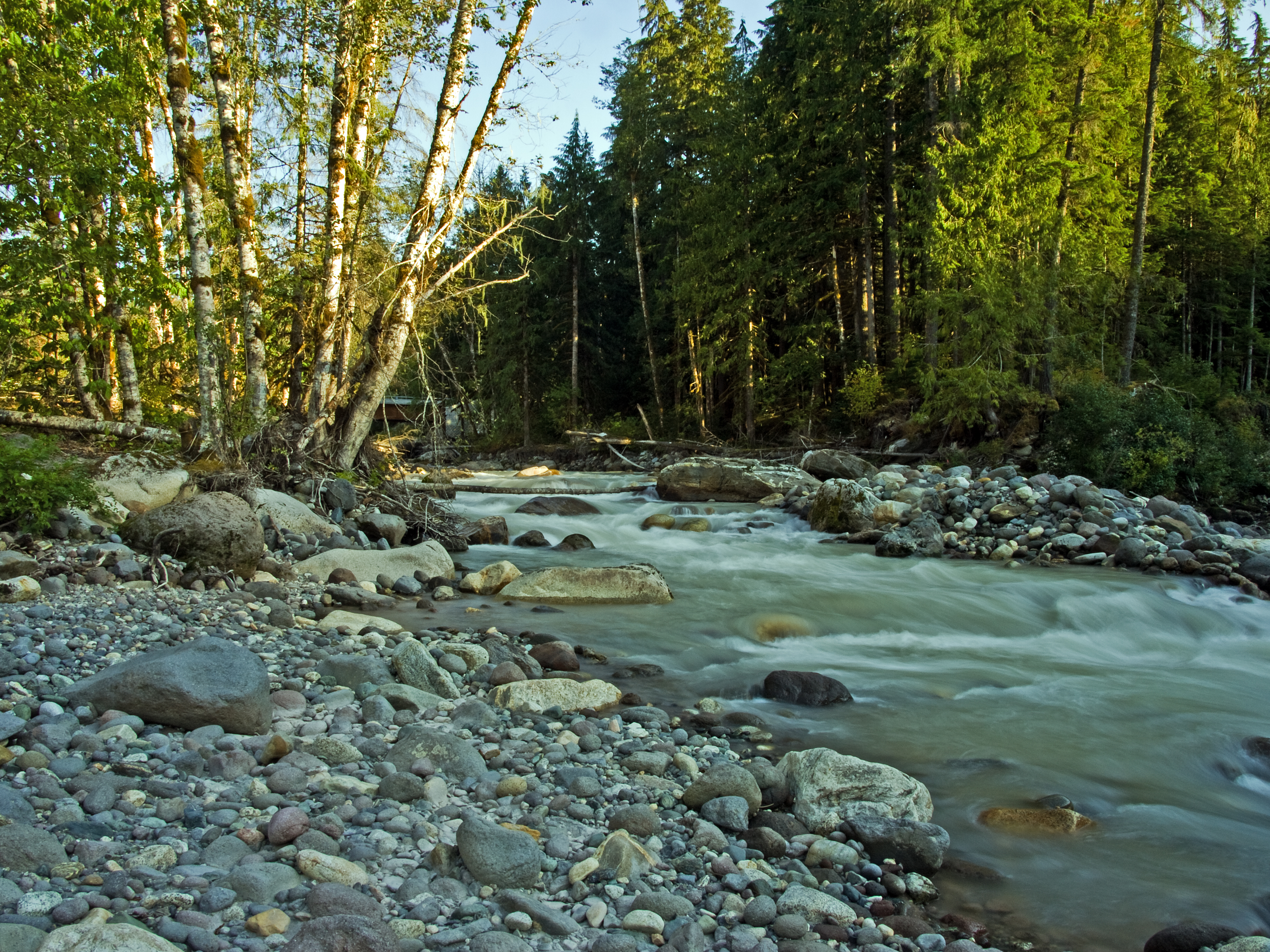 The Sauk River is a tributary of the Skagit River, approximately 45 miles (72 km) long, in northwestern Washington in the United States.